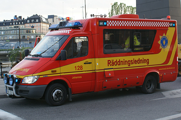 Fire engine, Mercedes 416 CDI/35, emergency management, in Stockholm Sweden